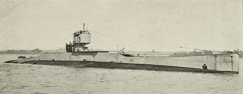 Photograph from starboard bow of British submarine L15.